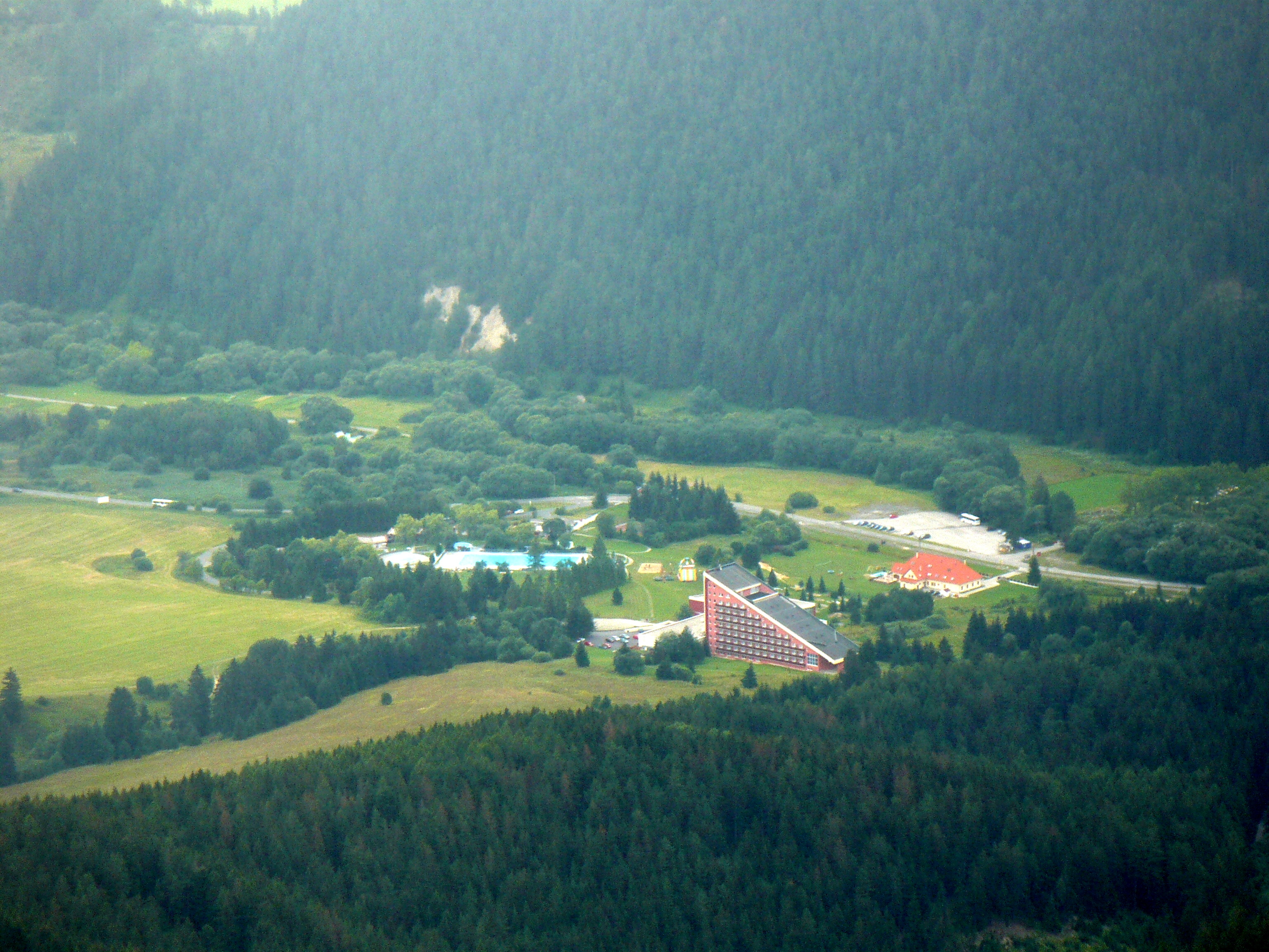 Thermal swimming pool and hotel Máj in Liptovský Ján, Slovakia.